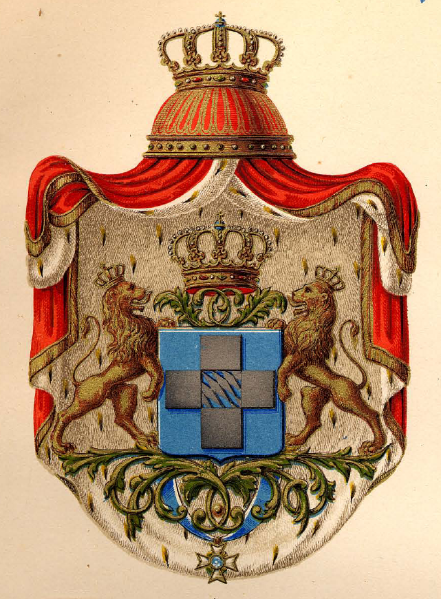 Coat of arms of kingdom of Greece (King Otto)